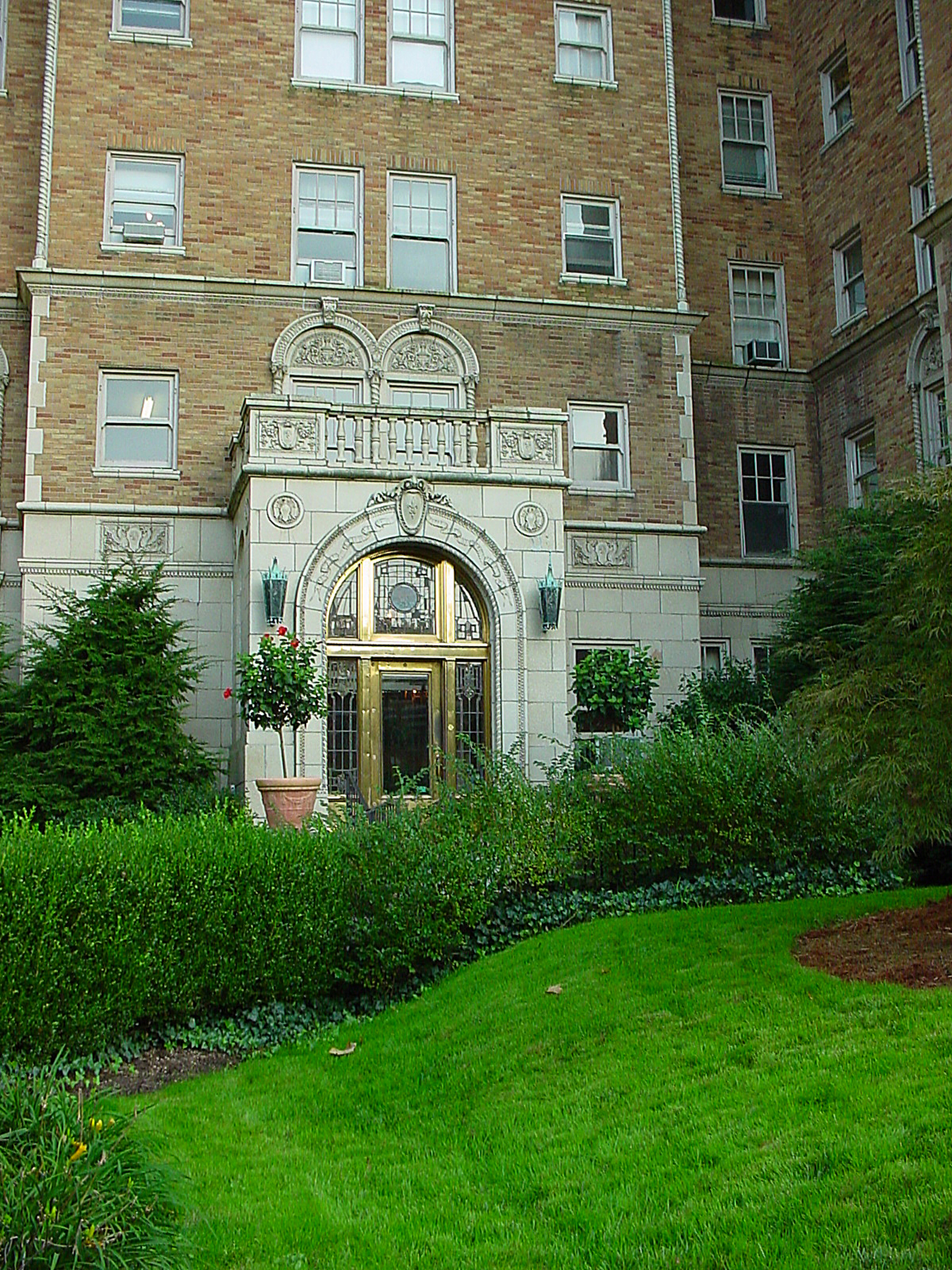 Front entrance of The Commodore Condominiums